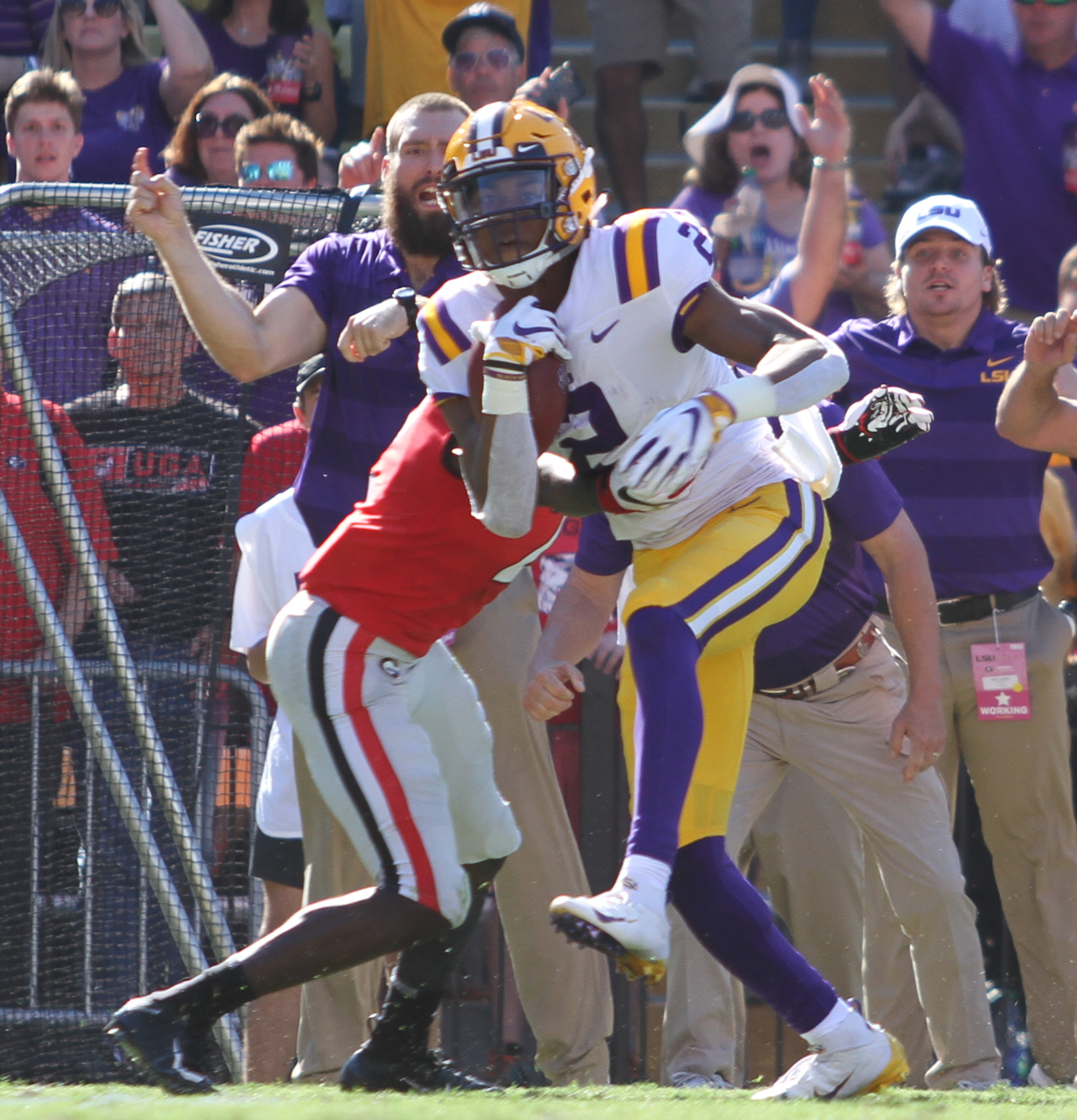 LSU Tigers wide receiver Justin Jefferson (2) and Georgia Bulldogs defensive back Richard LeCounte (2), Georgia Bulldogs vs LSU Tigers, Football, Tiger Stadium, October 13, 2018, Baton Rouge, Louisiana, Tammy Anthony Baker, Photographer